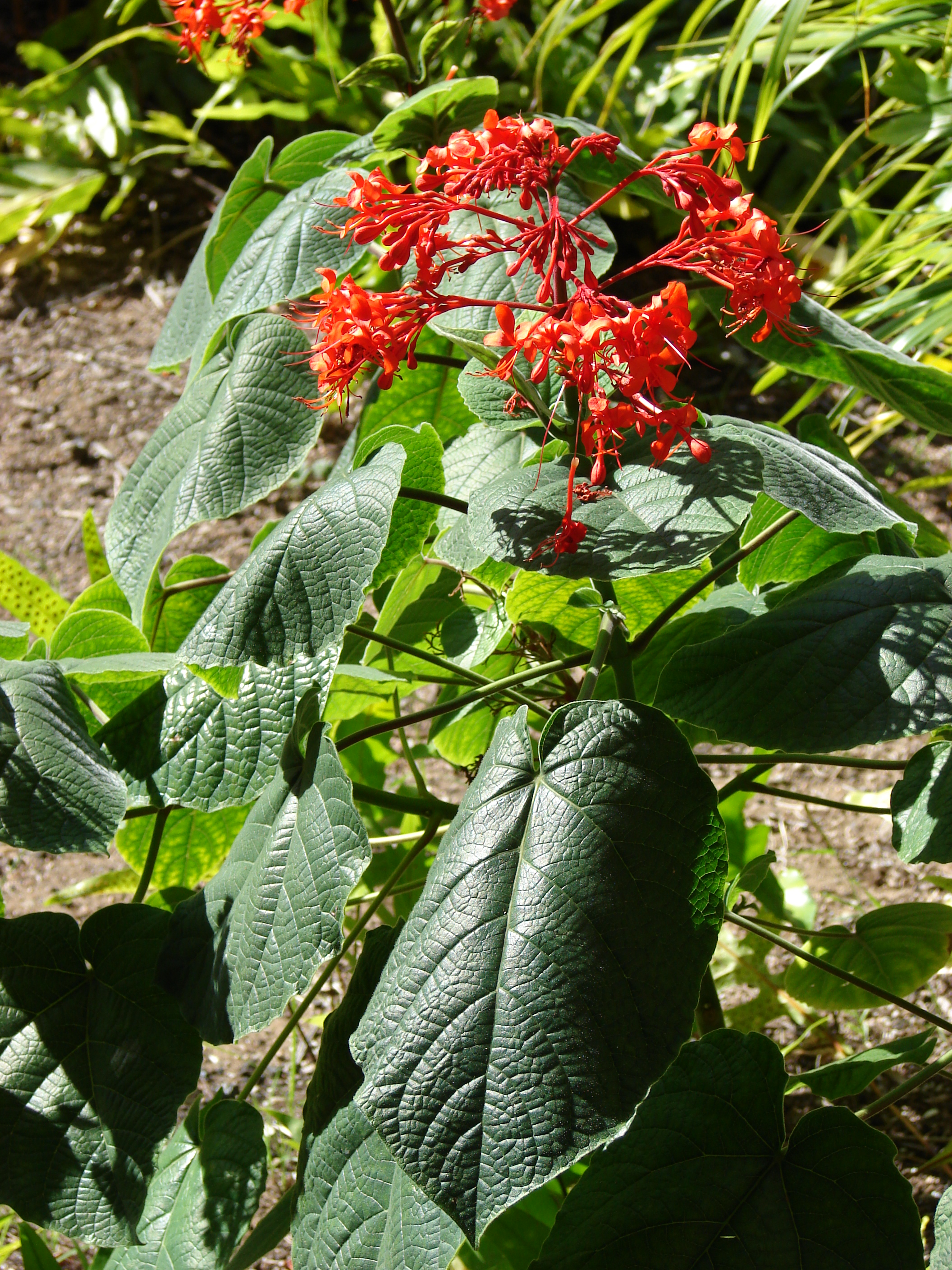 Clerodendrum buchananii var. fallax (flowering habit). Location: Maui, Wailuku